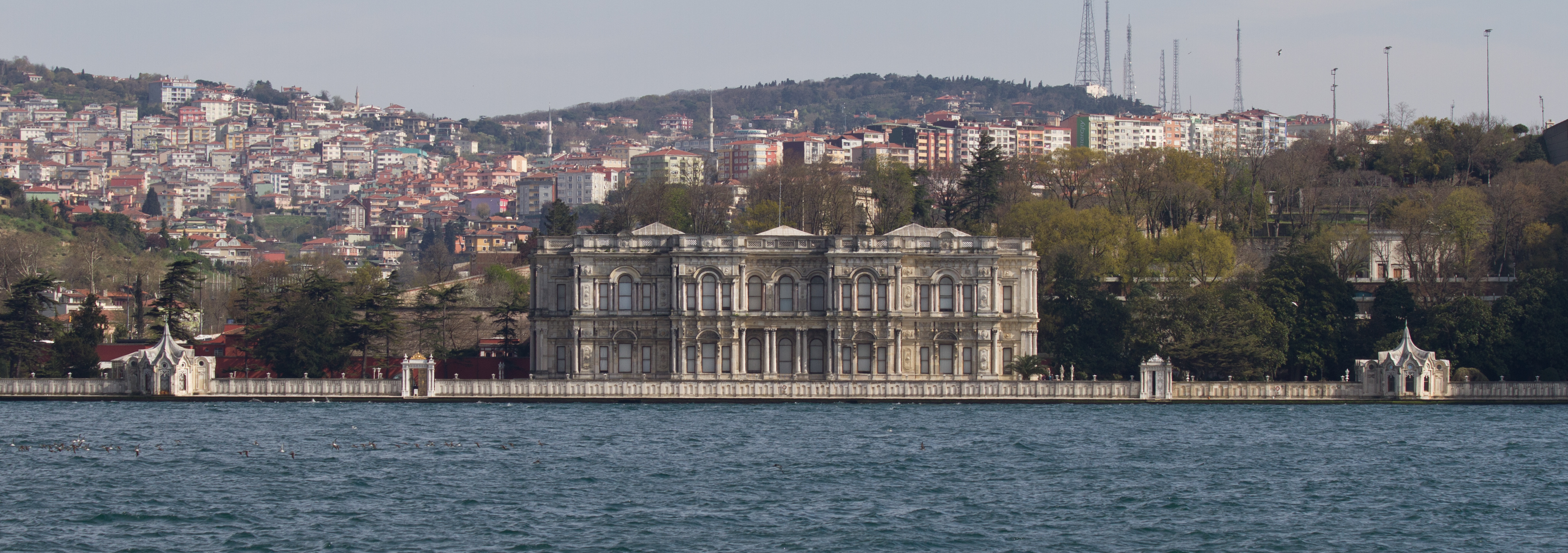 Beylerbeyi Palace